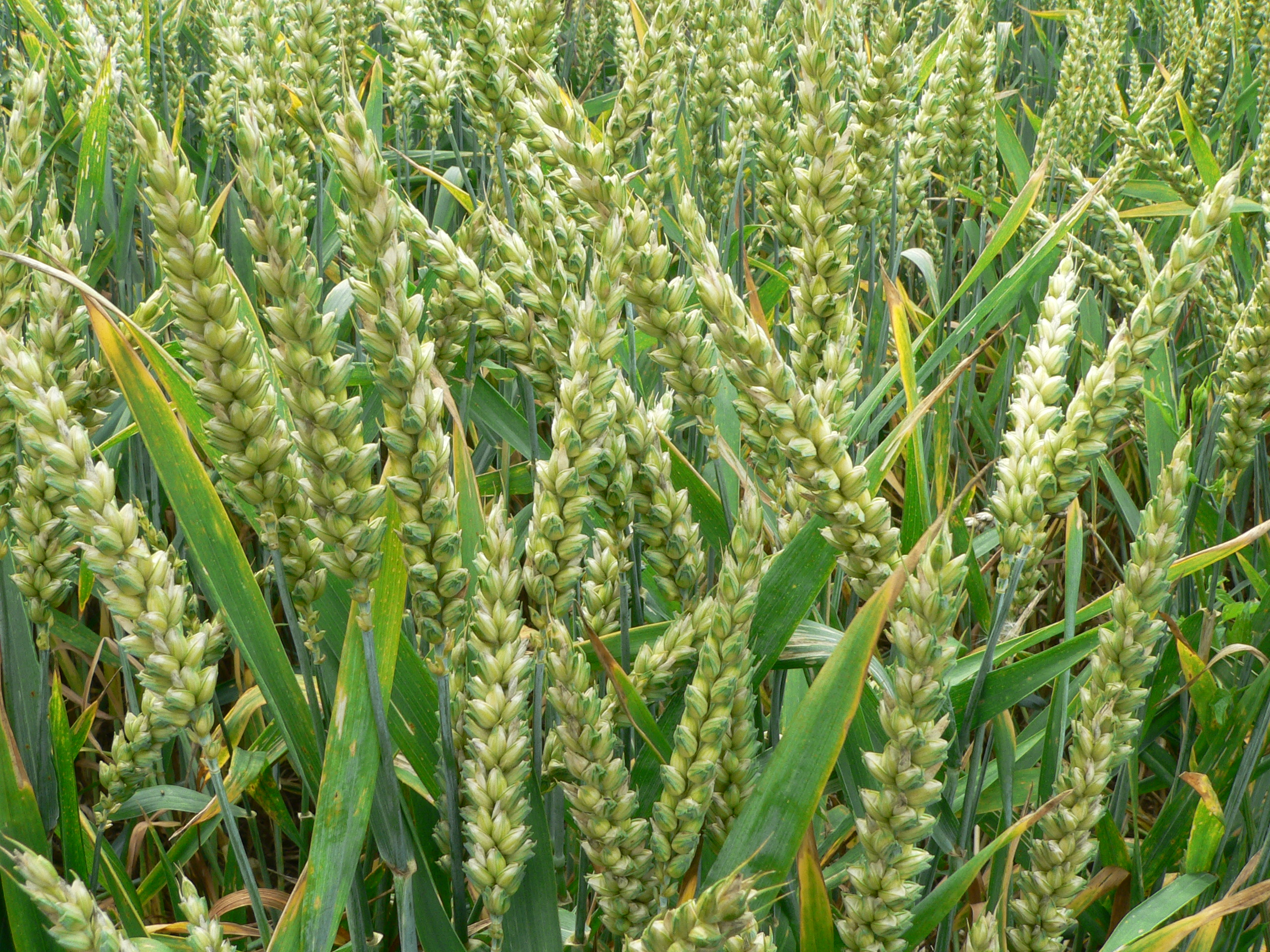 Wheat (Triticum aestivum) near Auvers-sur-Oise, France, June 2007